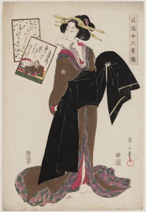 Akazome Emon, Heian era writer and lady-in-waiting, depicted here in a 19th Woodblock print (nishiki-e) print; ink and color on paper.